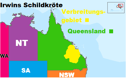 Verbreitungsgebiet der Irwins Schildkröte